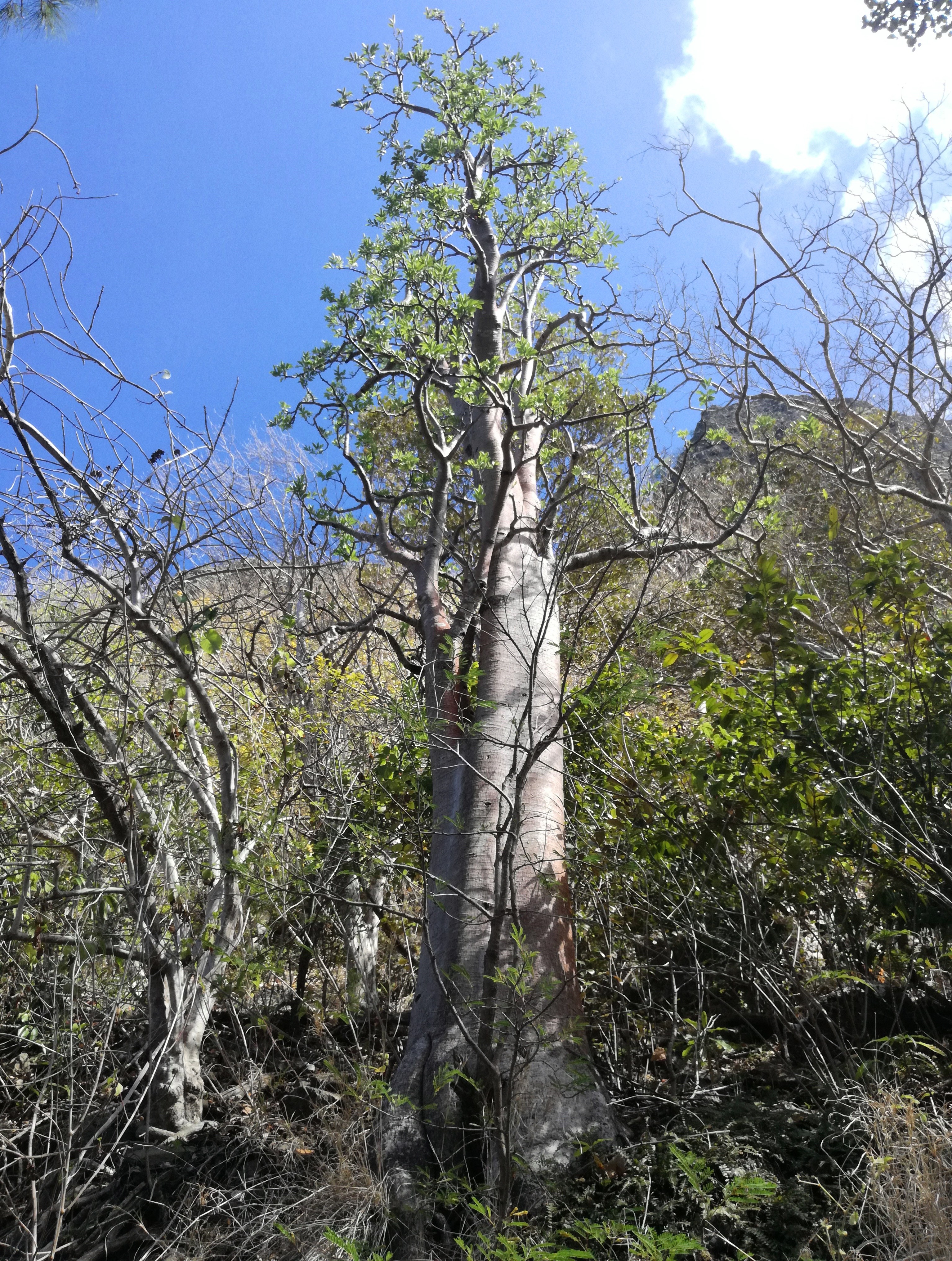 Bois Mapou - Cyphostemma mappia